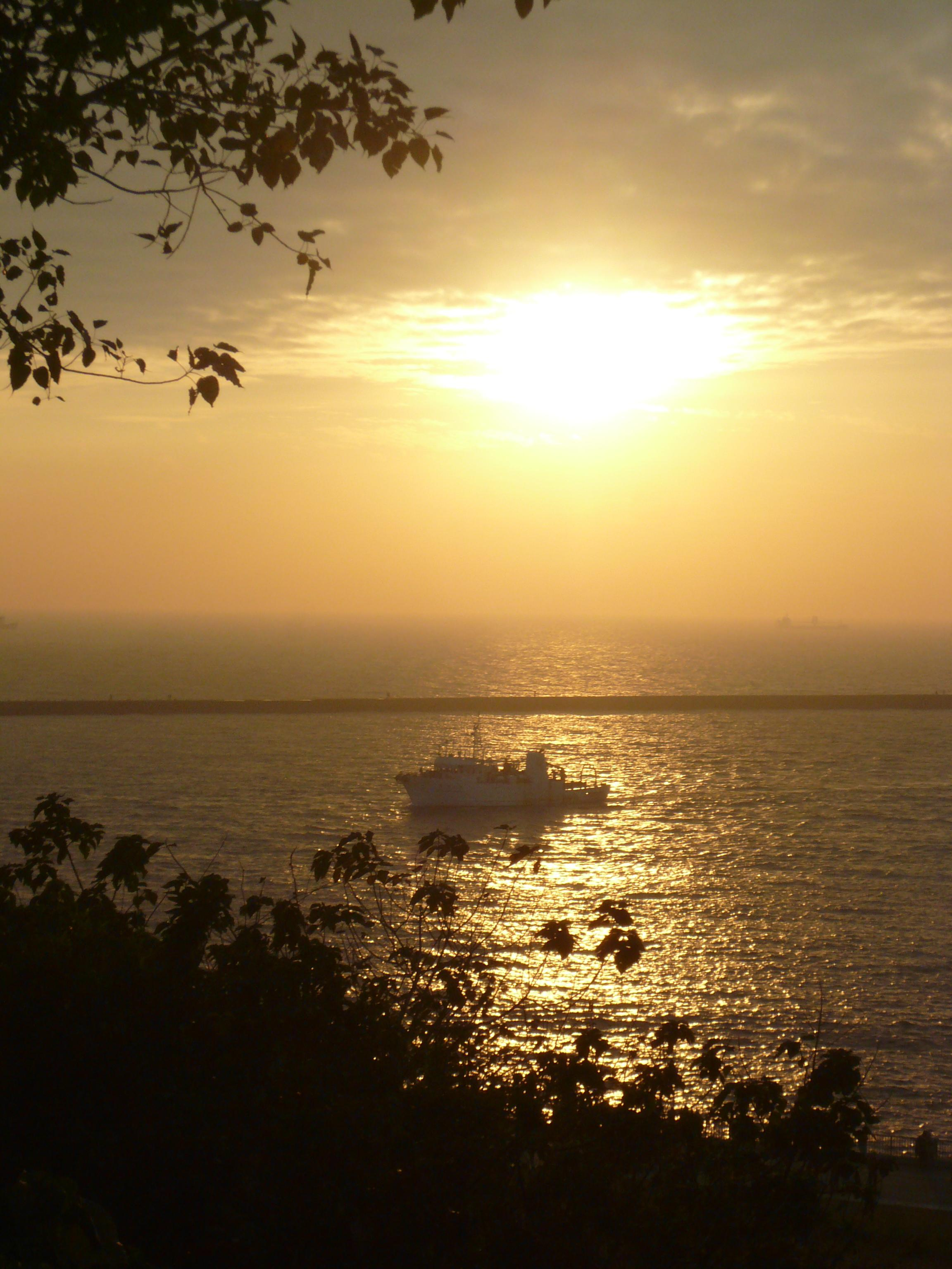 Sunset at Sizihwan Bay, Kaohsiung, Taiwan